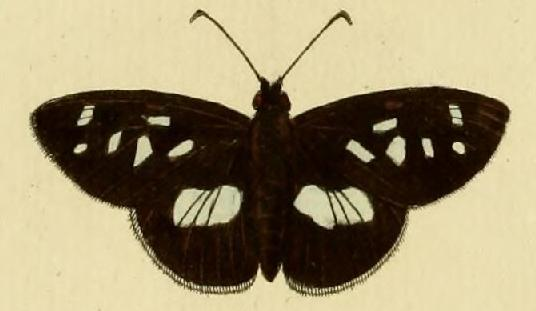 Plate CLVI D: "(Papilio) Phorcus" ( = Carystus phorcus, iconotype?), see Funet. Photos at Barcode of Life